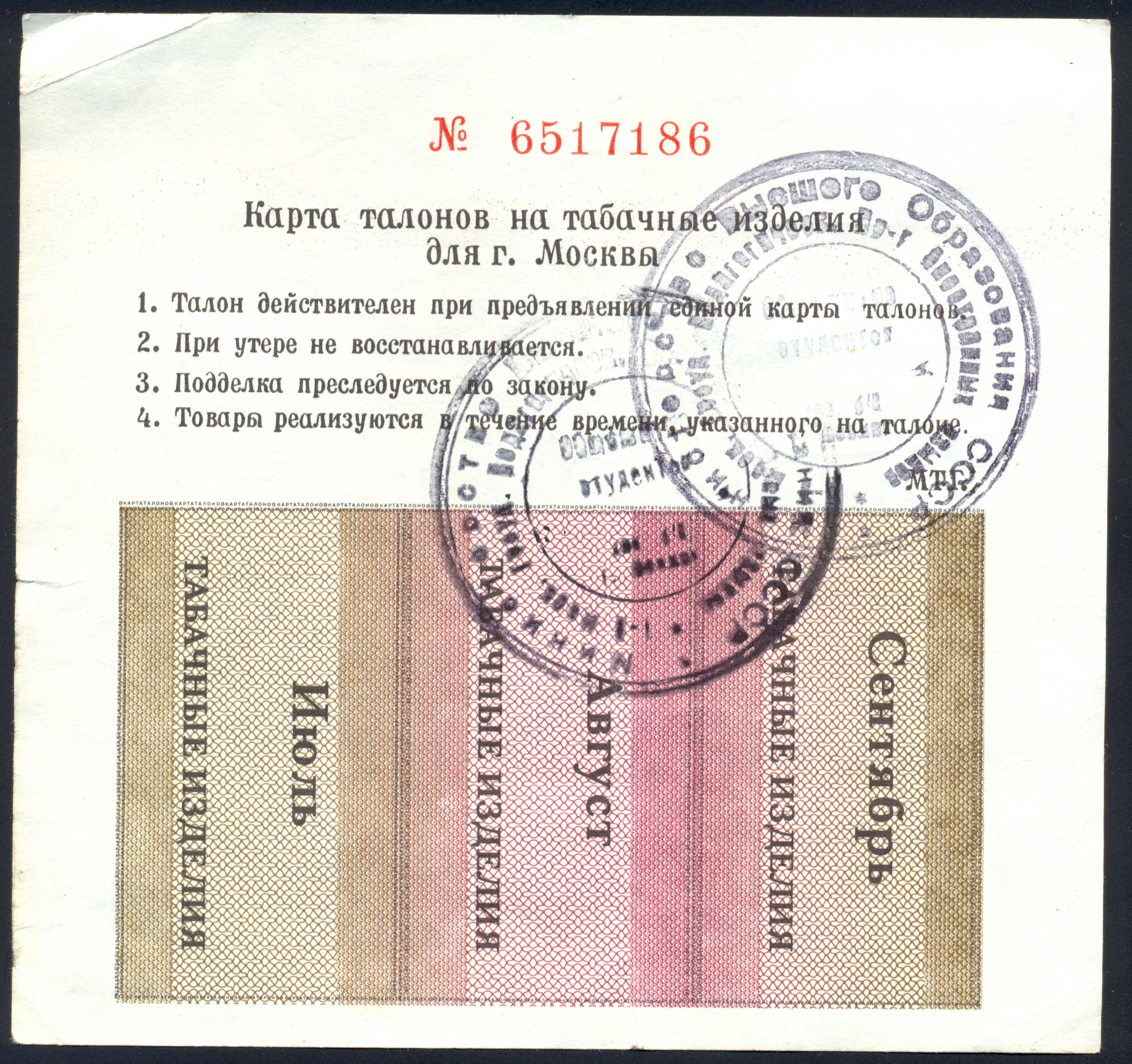 Moscow's ration stamps for tobacco of early 1990-s, Russia.